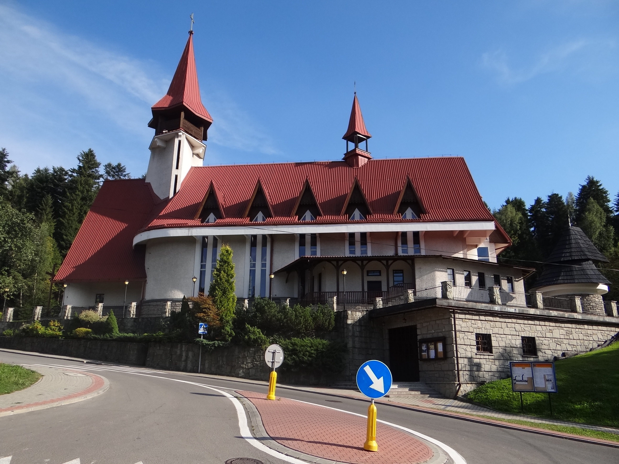 Our Lady of the Angels church in Nowy Targ